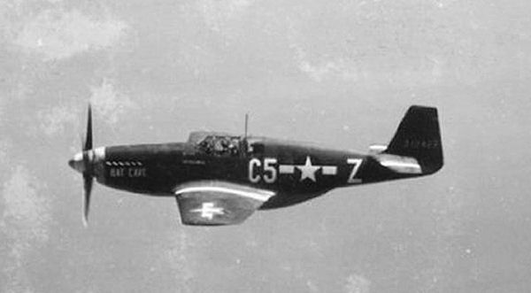 P-51B Serial 43-12123 of the 364th Fighter Squadron, 357th Fighter Group, based at RAF Raydon, England.